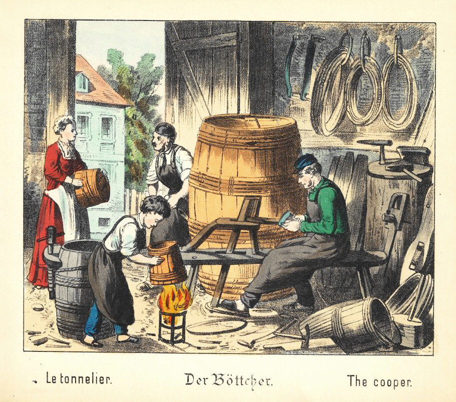 The cooper